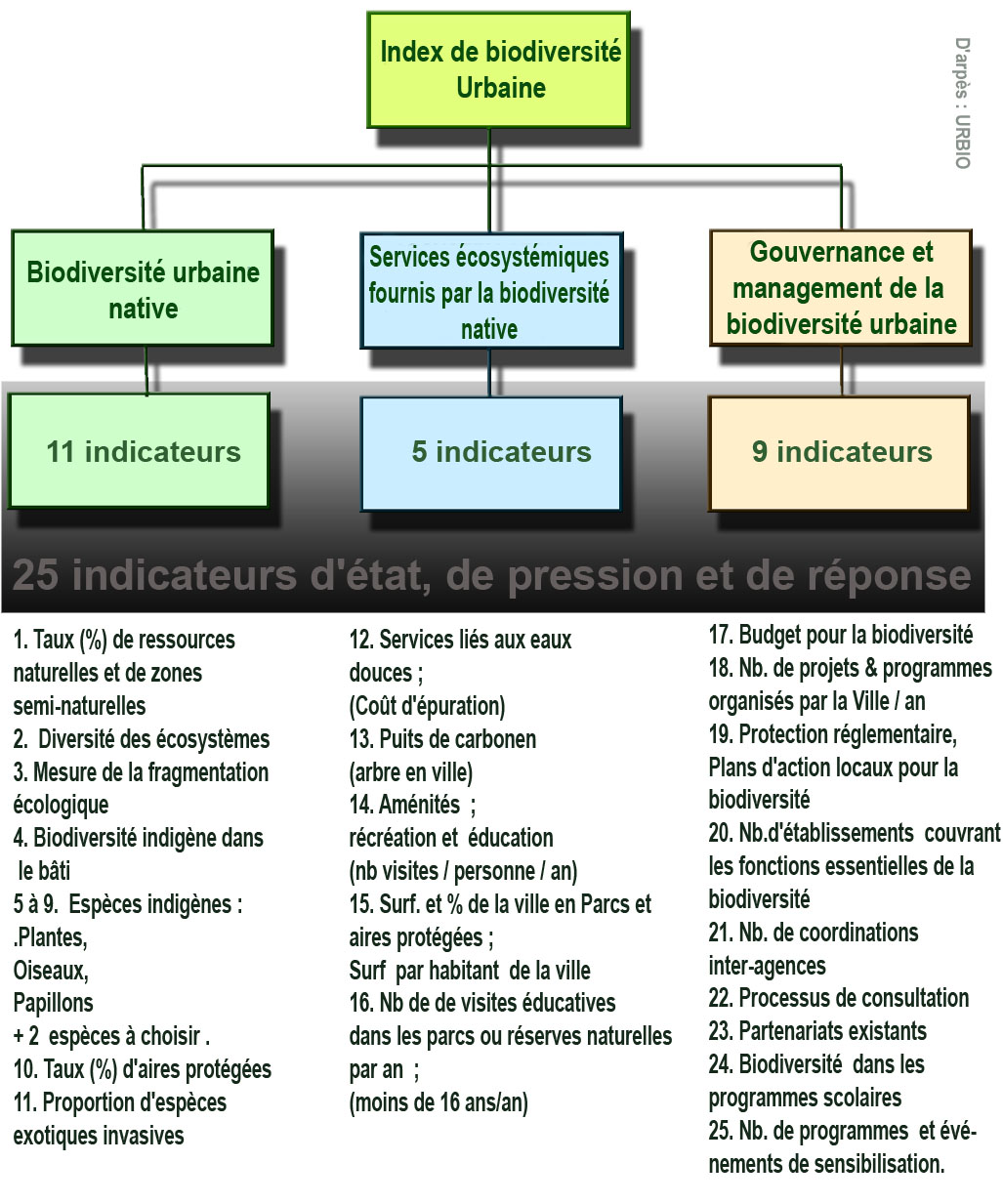 City Biodiversity Index, proposed in May 2008, by Minister of National Development of Singapore, Mr Mah Bow Tan to OBNU and UICN and towns involved with urban biodiversity management. index”